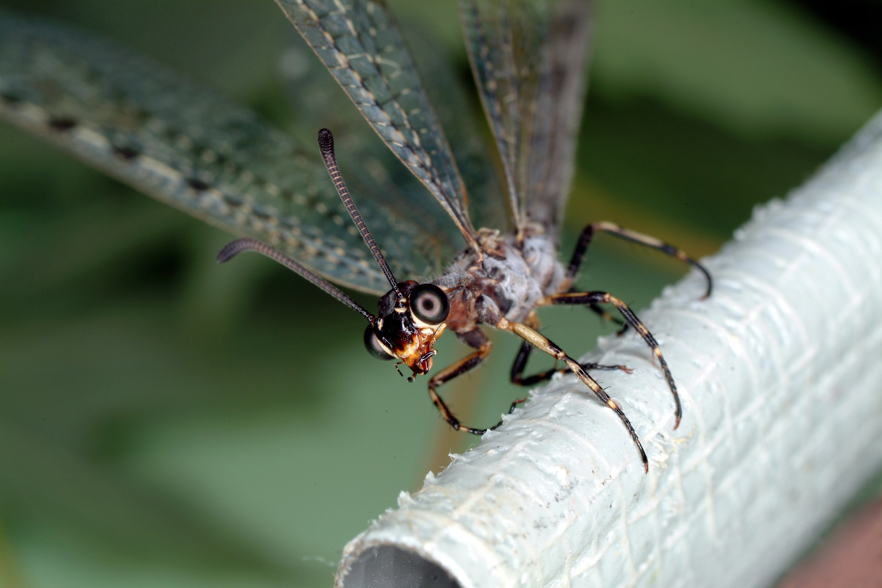 Myrmeleontidae (antlion) Photographer: Joseph Berger, , United States Descriptor: Adult(s) Image taken in: United States